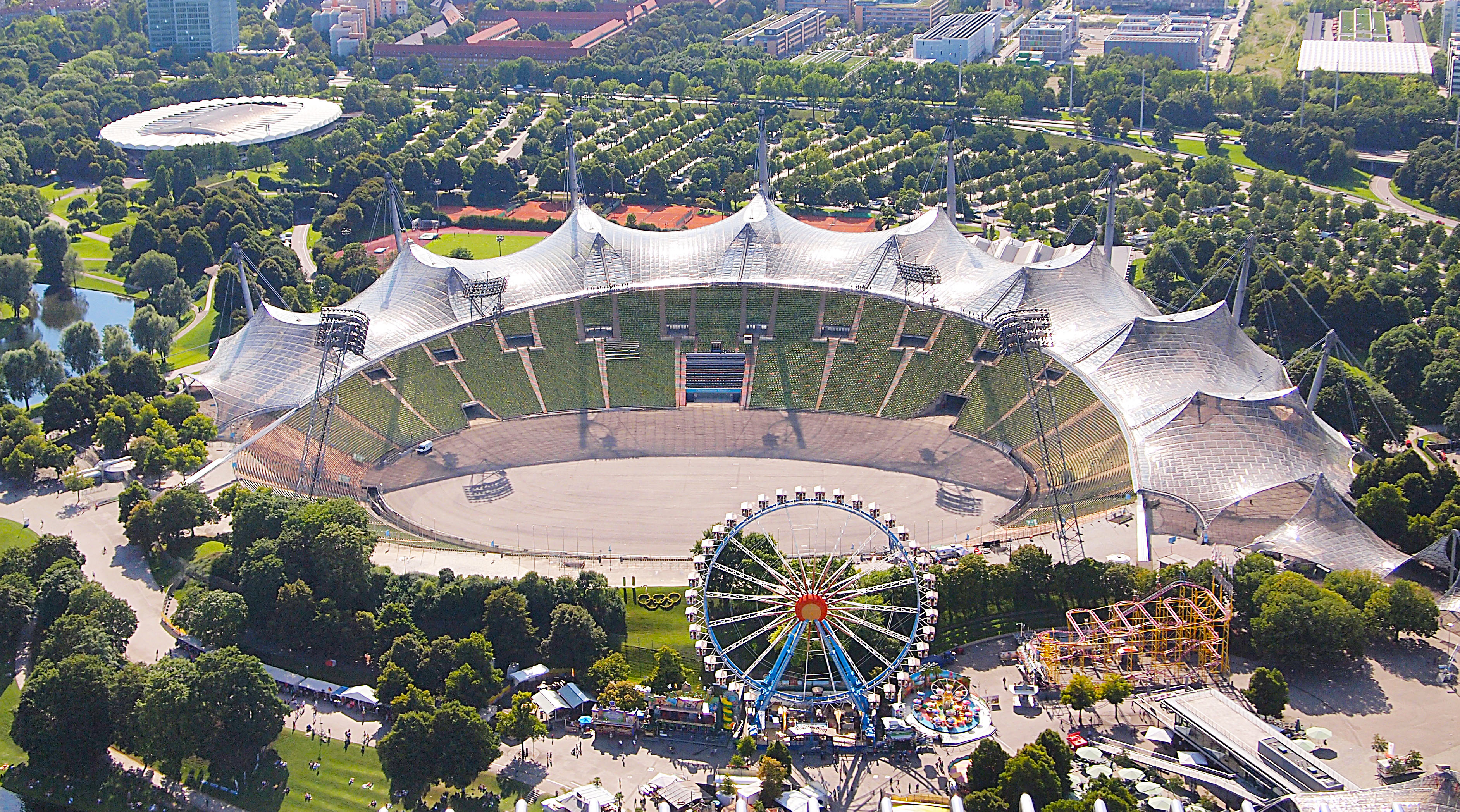 Olympuc Stadium and ferris wheel in Olympiapark, Munich.This photograph was taken with an Olympus E-PL1